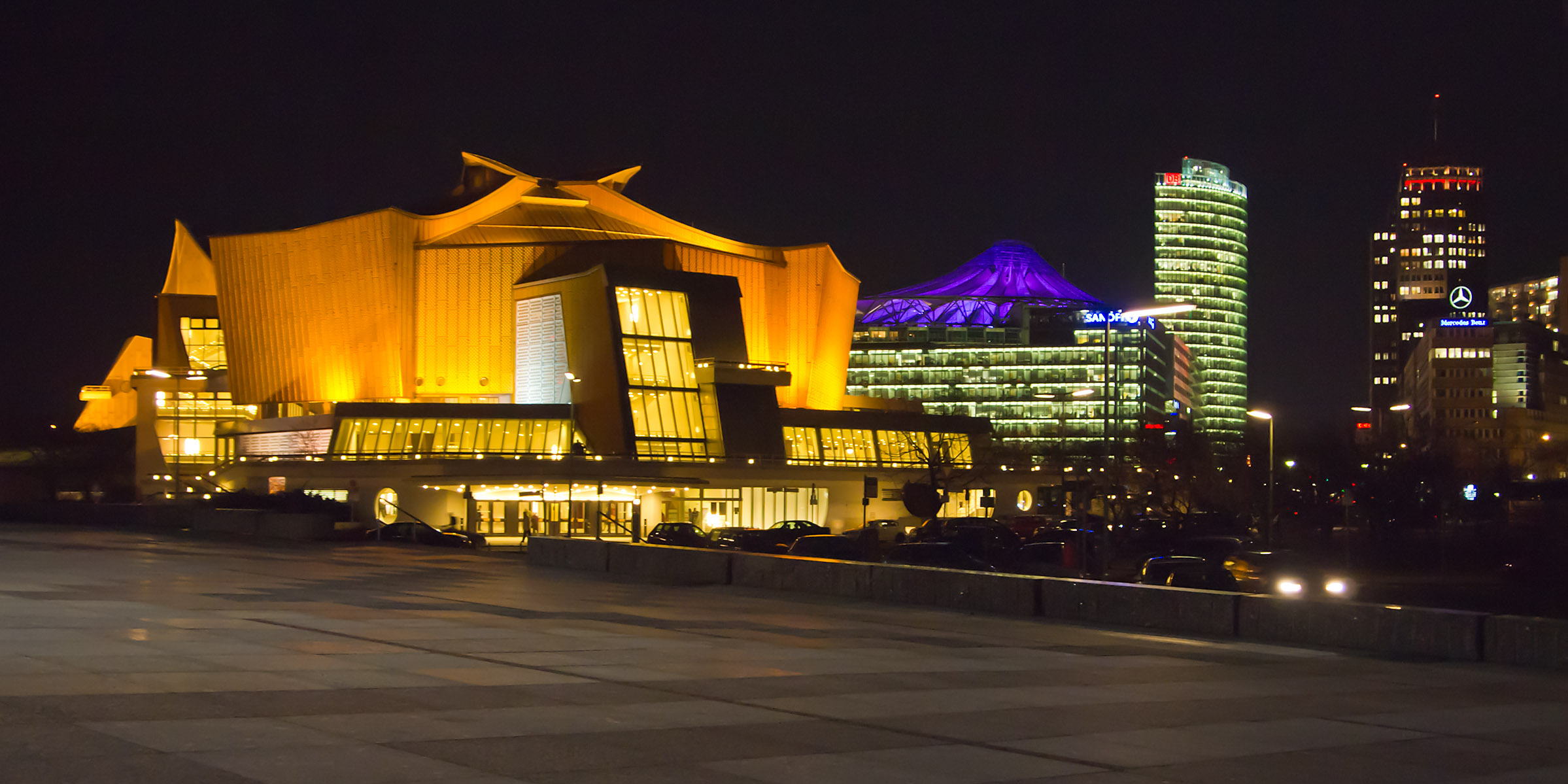 Kammermusiksaal Berlin (Chamber Music Hall), behind Philharmonie and Sony-Center, Berlin-Tiergarten, Germany